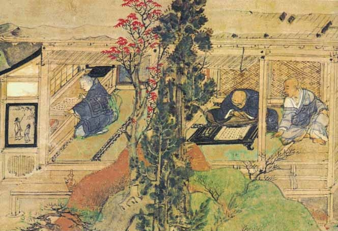 Honen shonin eden - Chion-in version - Honen studying the Hokke Sandaibu